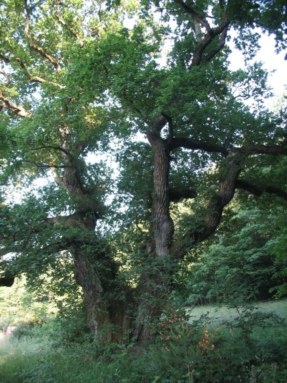 Oak at forester's house in Lahntal-Sterzhausen